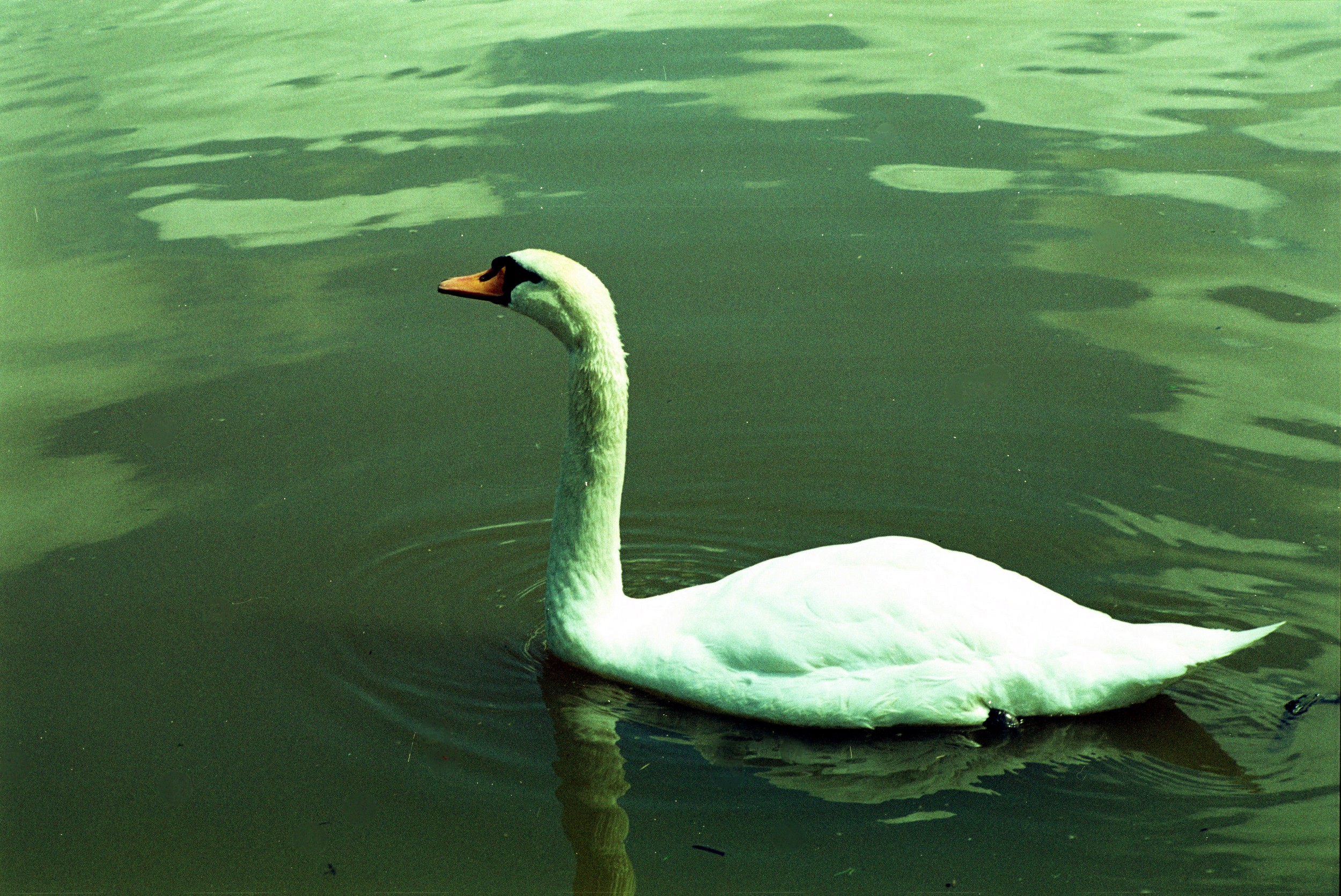 Swan on Avon River, Stratford, Ontario photograph by Gisling